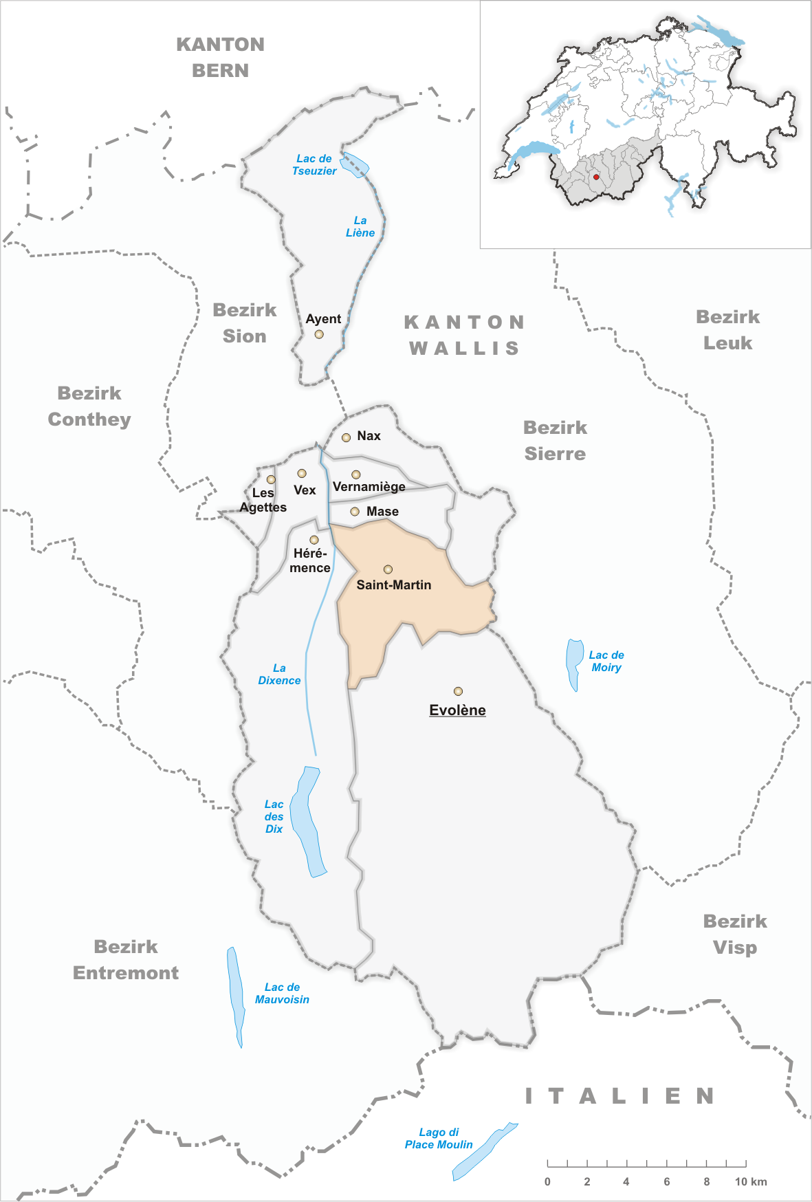 Municipality Saint-Martin